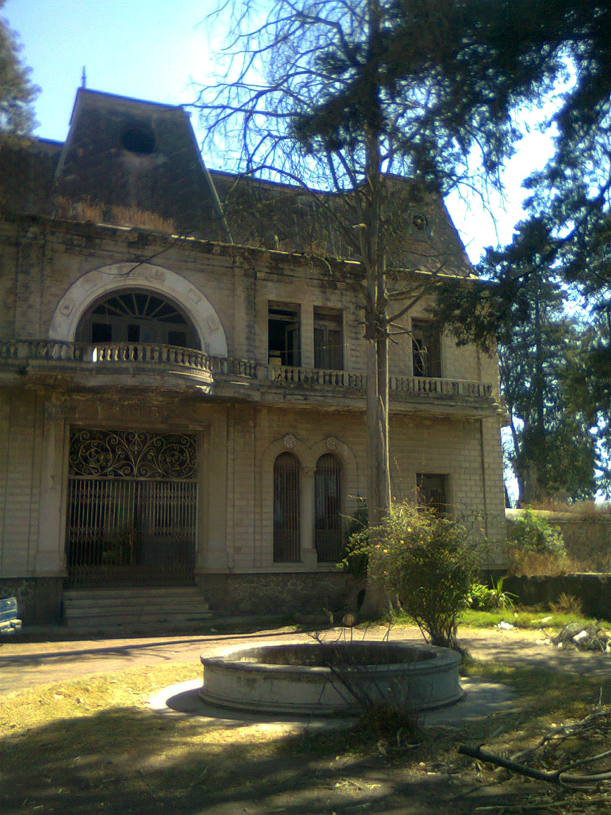 Photo of Ex-Hacienda de Exquitlán, at Tulancingo, Mexico.